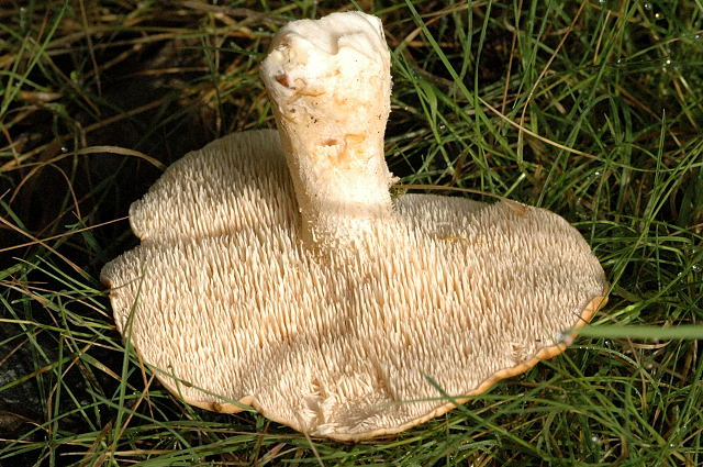 Hydnum repandum from Commanster, Belgium. The determination of the species shown in this picture has been verified.